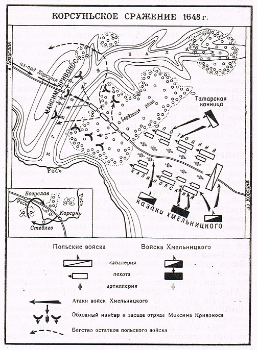 Battle of the Korsun 1648